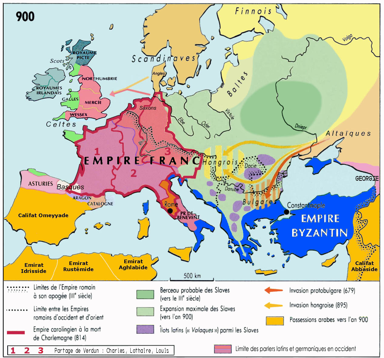 Historical map of Europe, year 900